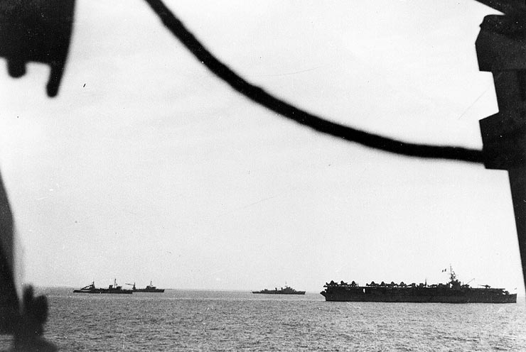 French warships off Nha Trang during Operation "Meknes and Atlas", 15-19 April 1953. The carrier La Fayette (R96) is at right. The colonial sloop in center may be Savorgnan de Brazza. The two aircraft tenders at left are Paul Goffeny and Commandant Robert Giraud.